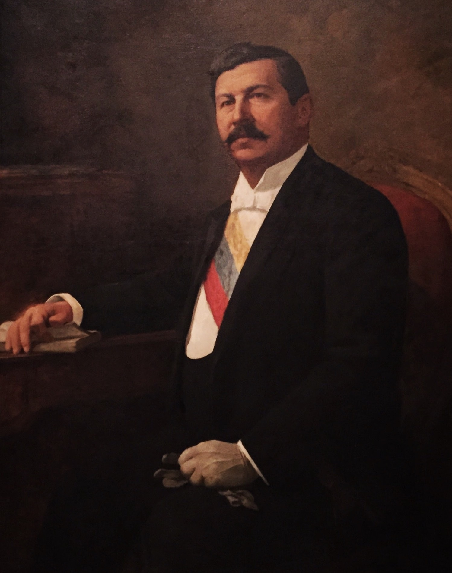 Portrait of Juan Vicente Gómez by Antonio Herrera Toro. Oil on canvas: 130 x 98 cm.